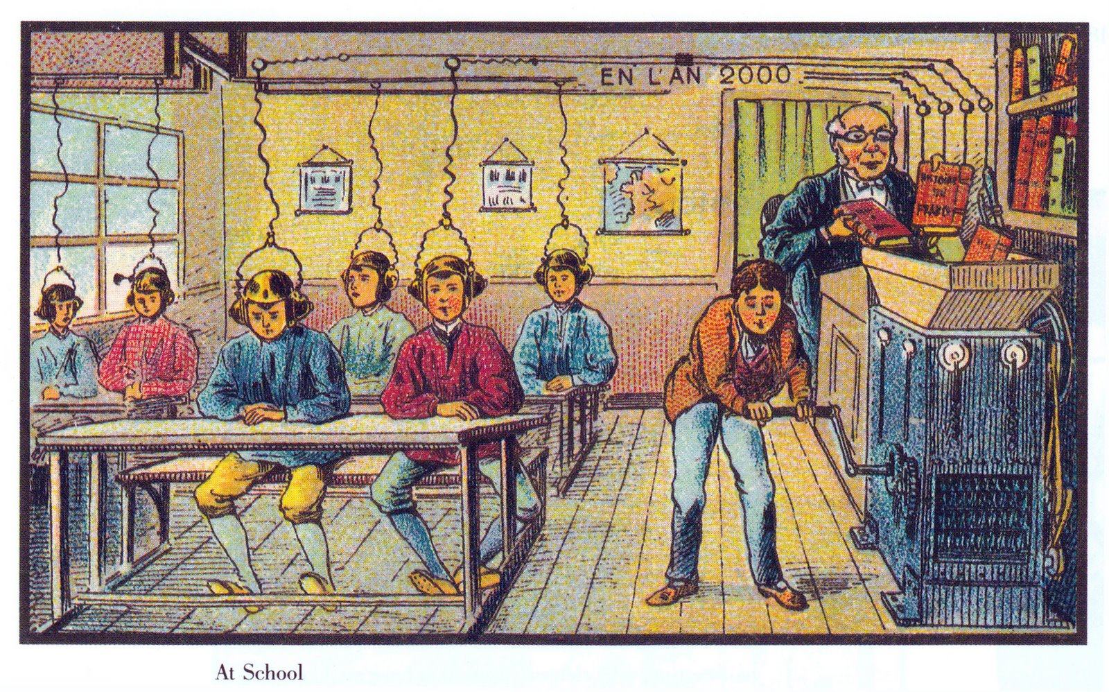 France in 2000 year (XXI century). Future school. France, paper card.